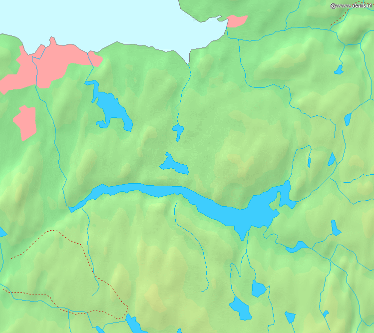 Selbusjøen, a lake in Norway, Southeast of Trondheim. Bounding box West 10.3°, South 63.1°, East 11.3°, North 63.5°. Center at 63°18′00″N 10°48′00″E / 63.30000°N 10.80000°E.